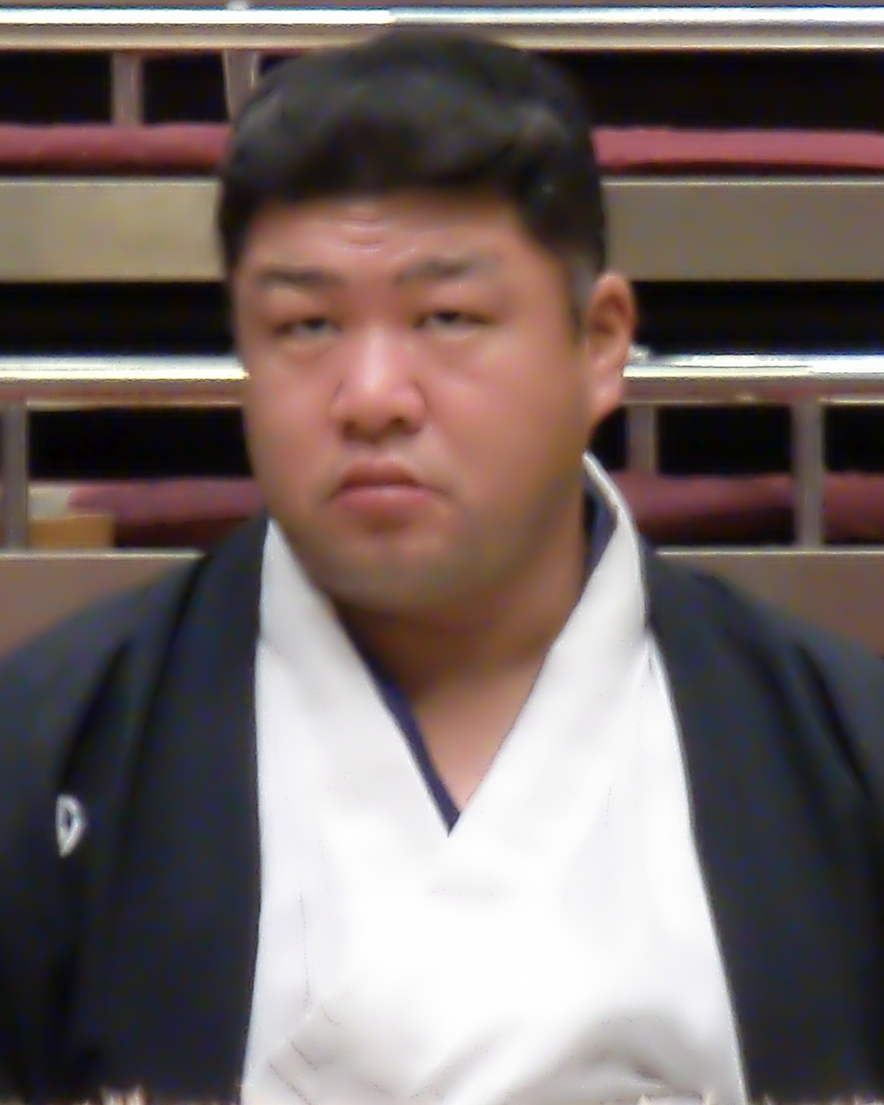 A picture of the now judge/coach that I took myself at a recent tournament